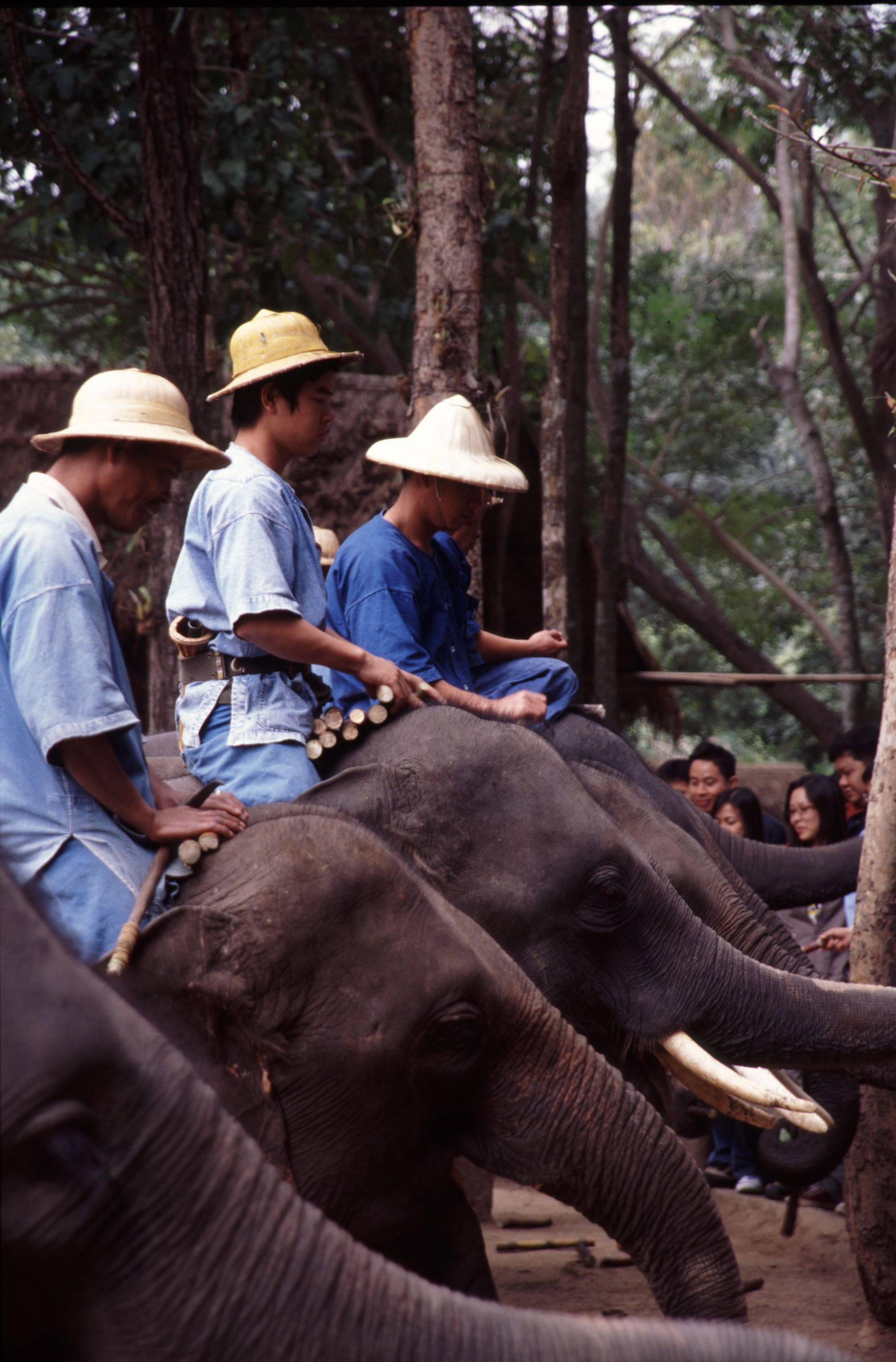 Elephants in show at the elephant conservation camp in Lampang